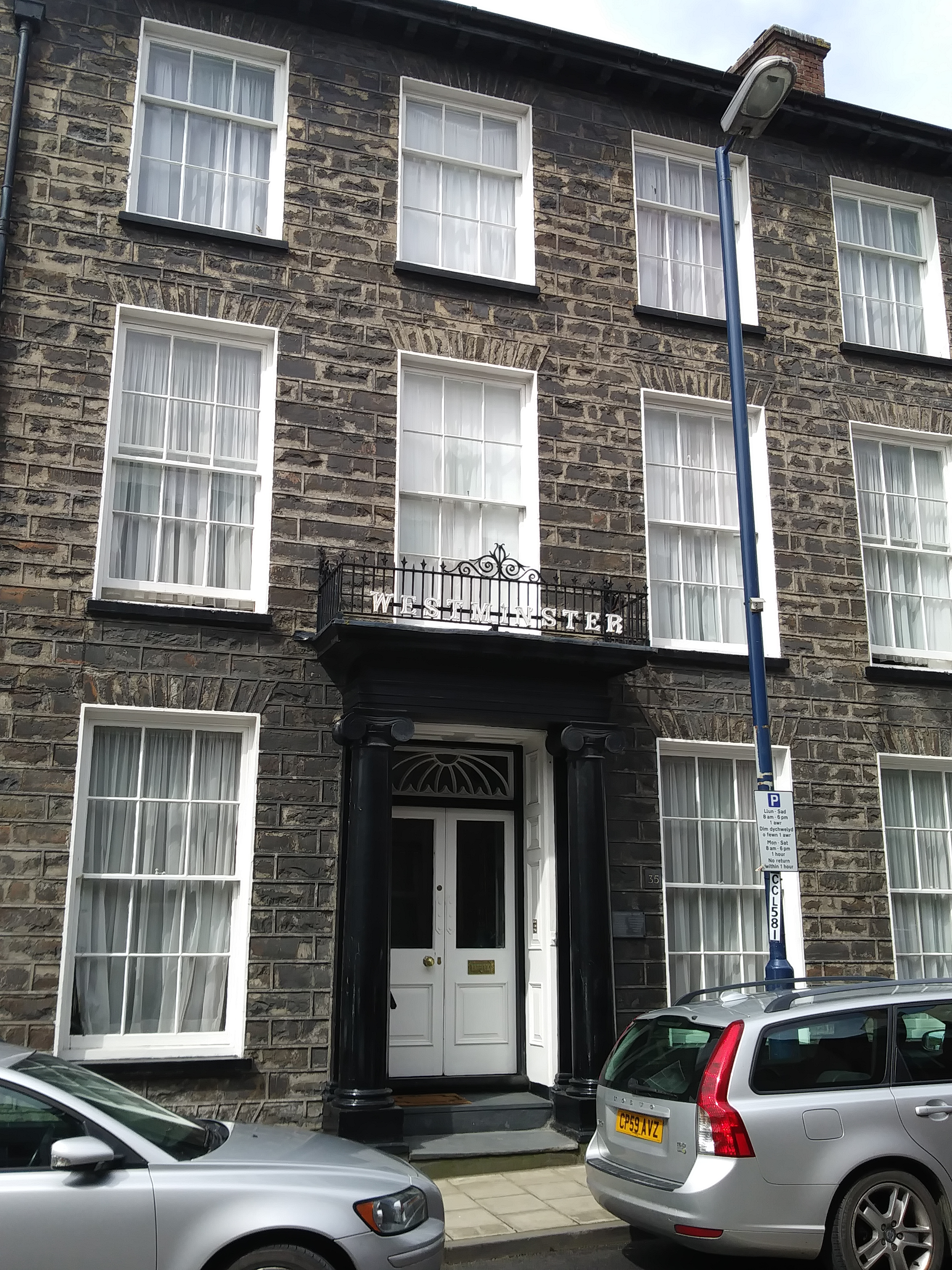 Westminster House, Bridge St, Aberystwyth